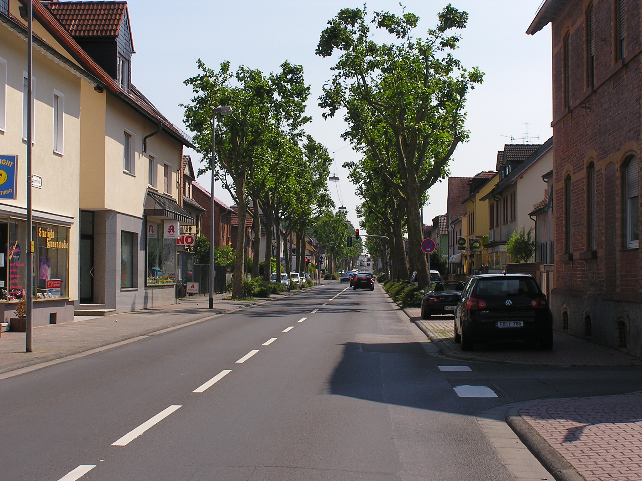 The main street in Friedrichsdorf-Köppern, Köppern Street, view from the Erlenbach bridge to south